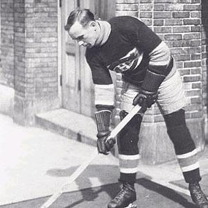 Didier Pitre, player for the Montreal Canadiens of the NHA and NHL from 1910 to 1923. Photo circa 1921–22.